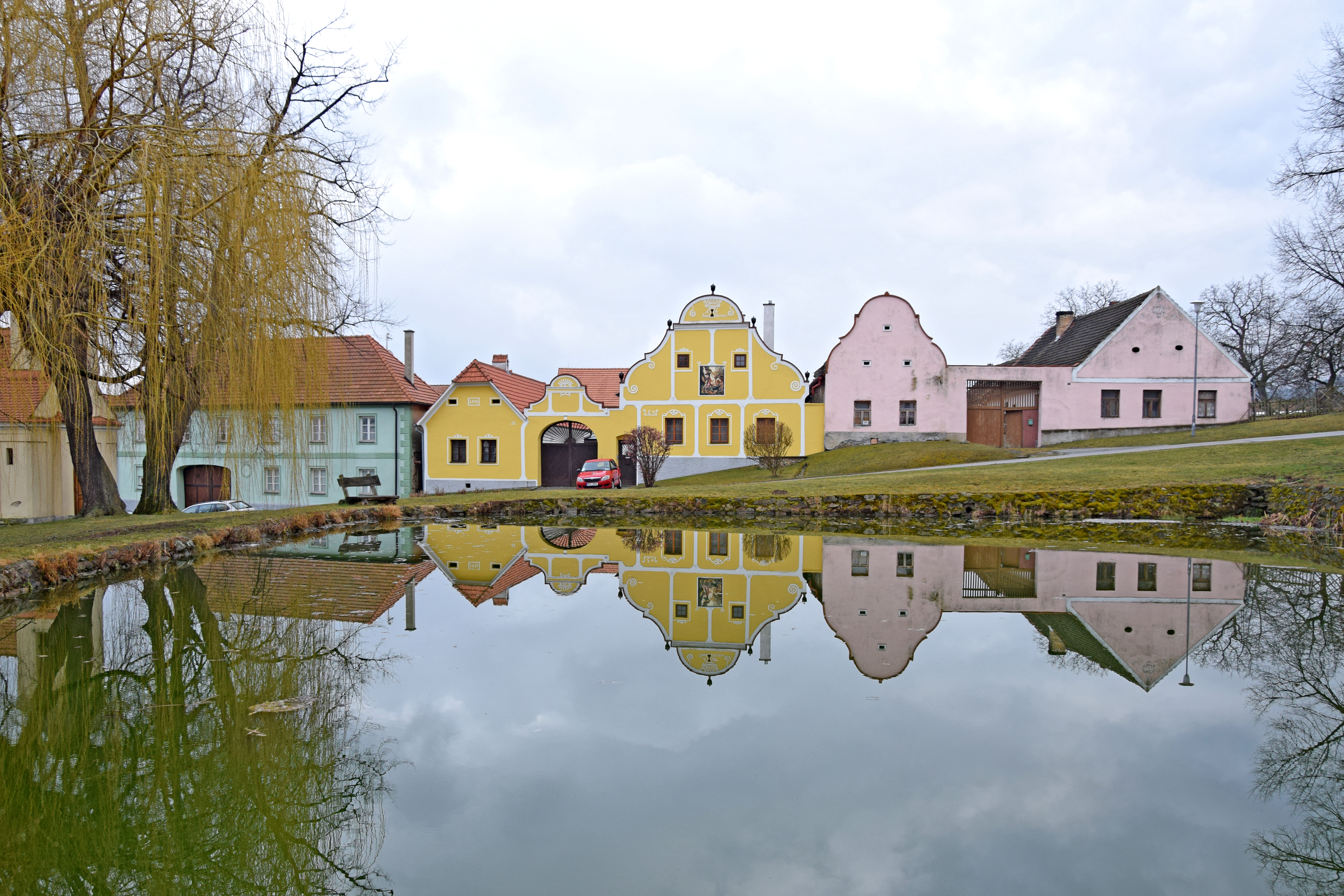 Village square in Dobčice, České Budějovice District, the Czech Republic.